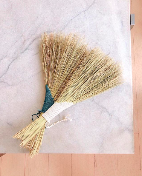 Two turkey tail brooms made with broom corn and twine on a marble table